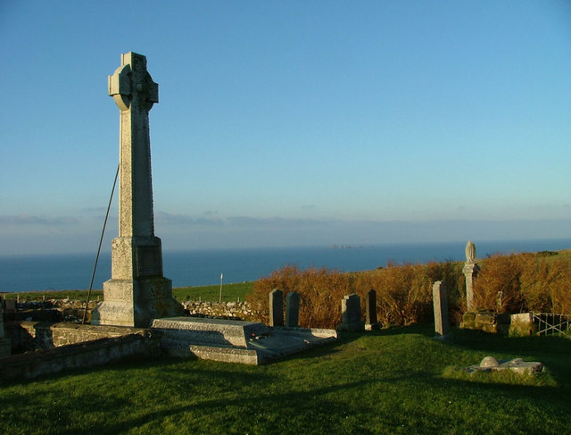 Flora Macdonald's Grave and Monument The stone reads, Flora Macdonald. Born at Milton, South Uist 1722. Died at Kingsburgh Skye 4th March 1790.